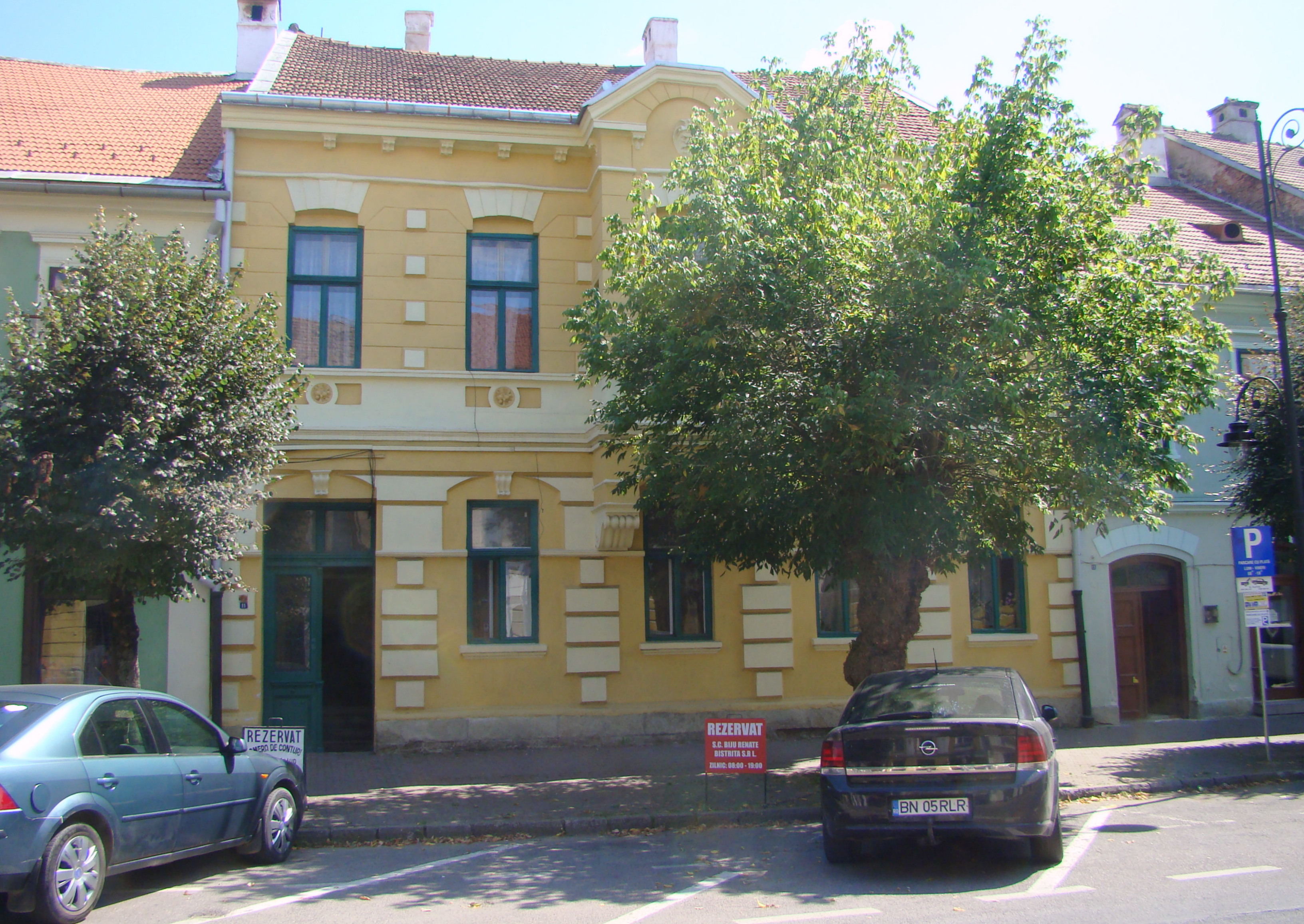 House, historic monument, in Bistrița, Gheorghe Șincai street 11